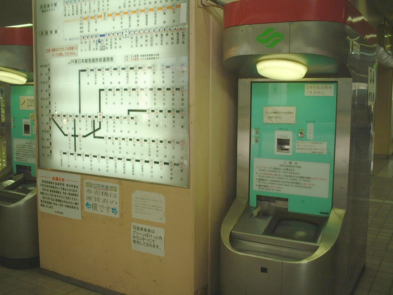 Ticket machine of Ryokuen-toshi Station, Taken on February 1, 2004. Touch panel type